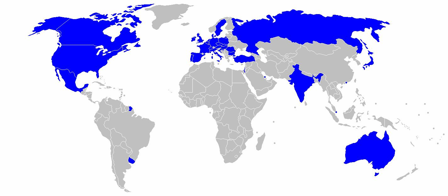 Dexia world locations